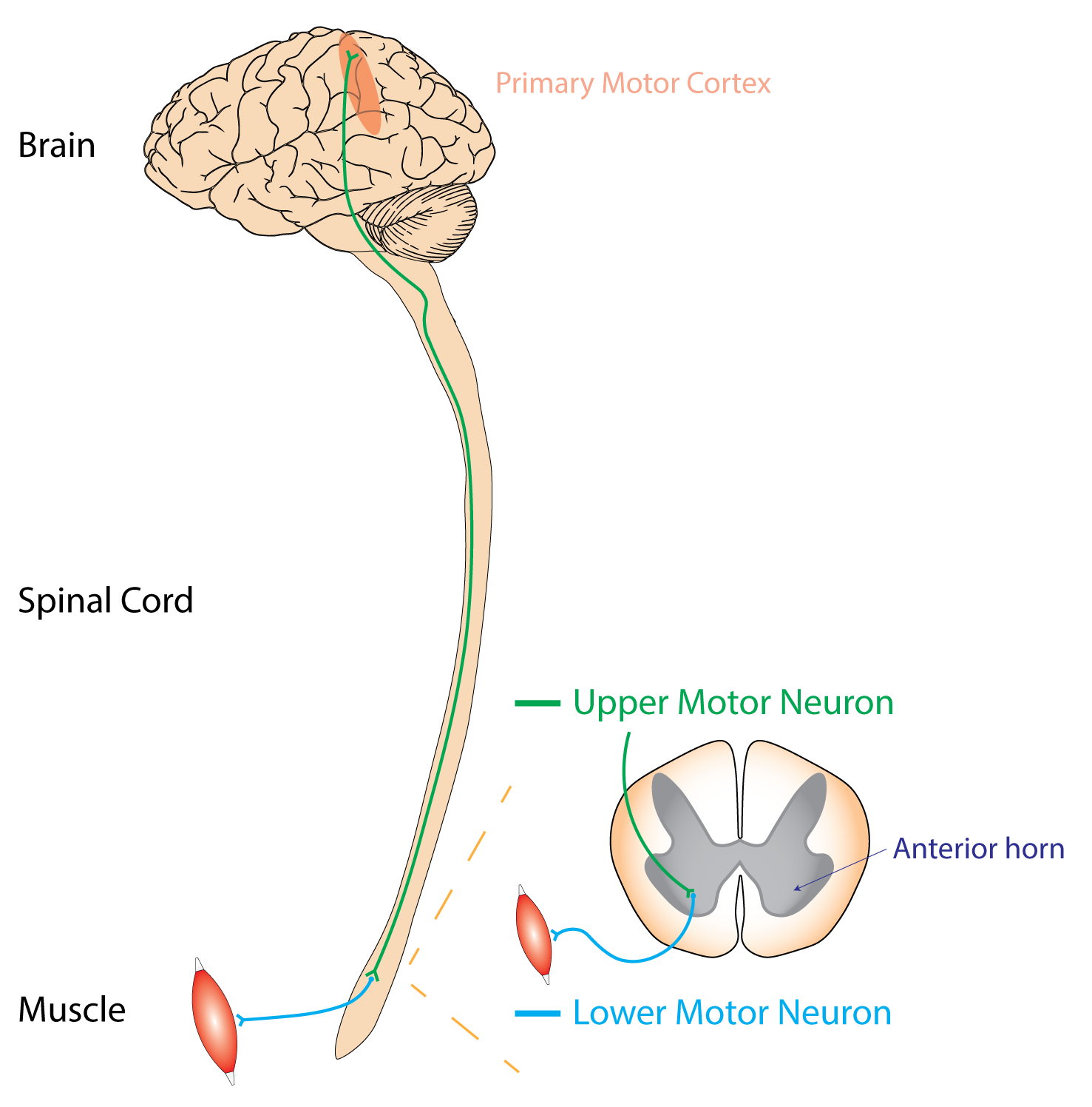 Corticospinal tract demonstrating distinction between upper motor neuron and lower motor neuron.